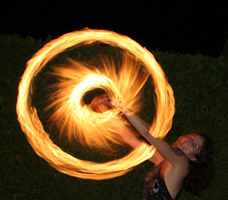 Firepoi - Buzzsaw - side view